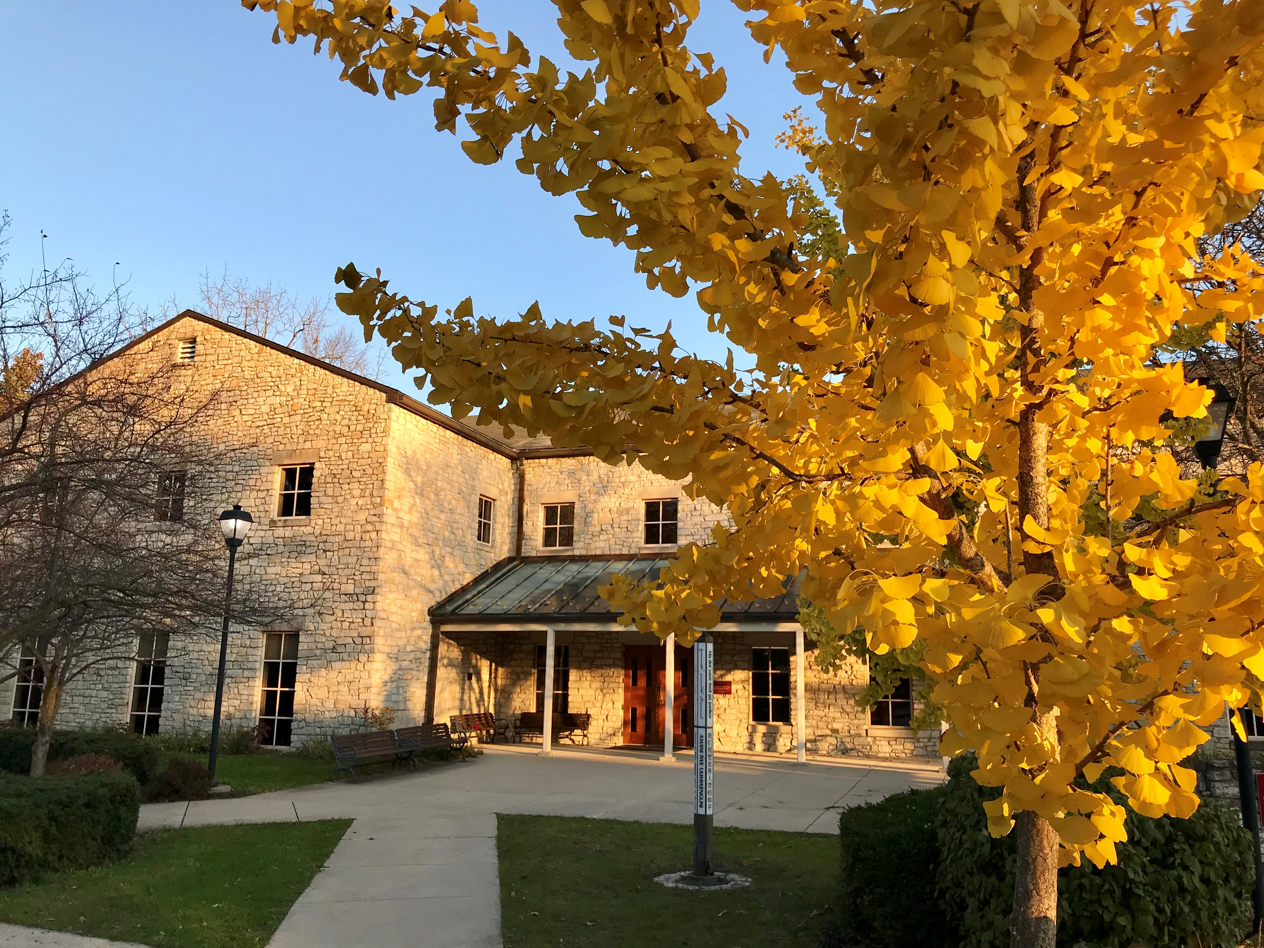 Earlham School of Religion's ESR Building used for classes, worship, dining, and computing services.